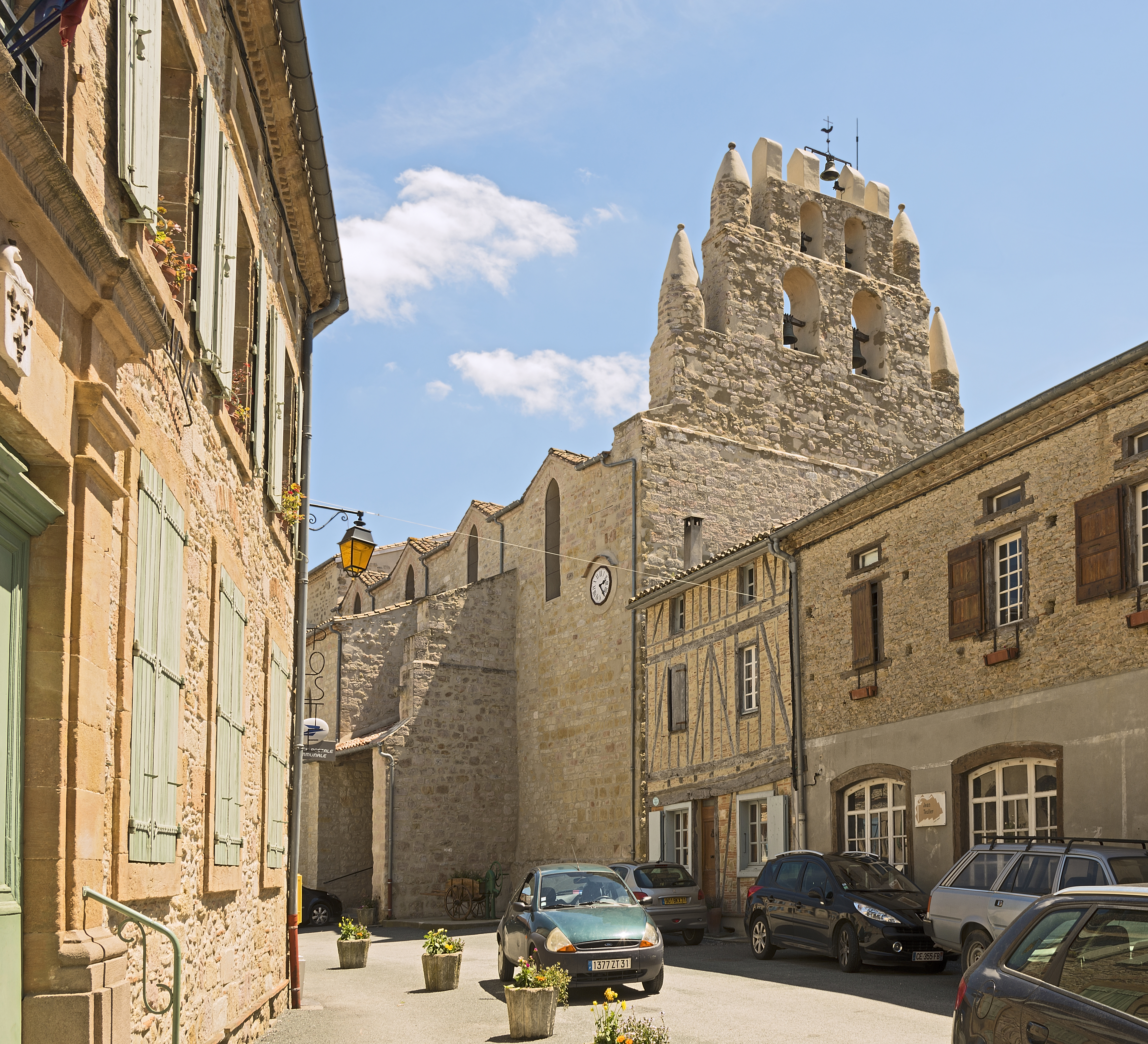 Saint-Julia, Haute-Garonne, France. Church "Sainte-Agathe et Saint-Julien" and Town hall.